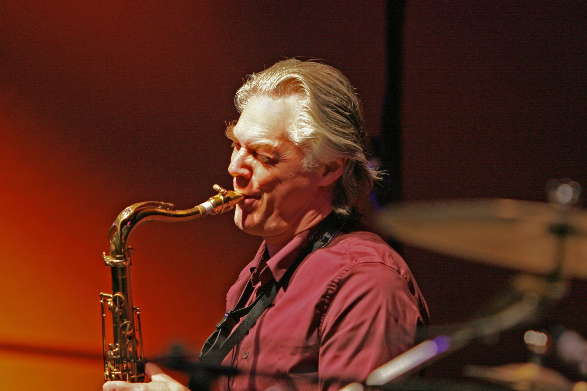 Jan Garbarek Group Athens magical concert in Lycabettus theater, July 10th, 2007